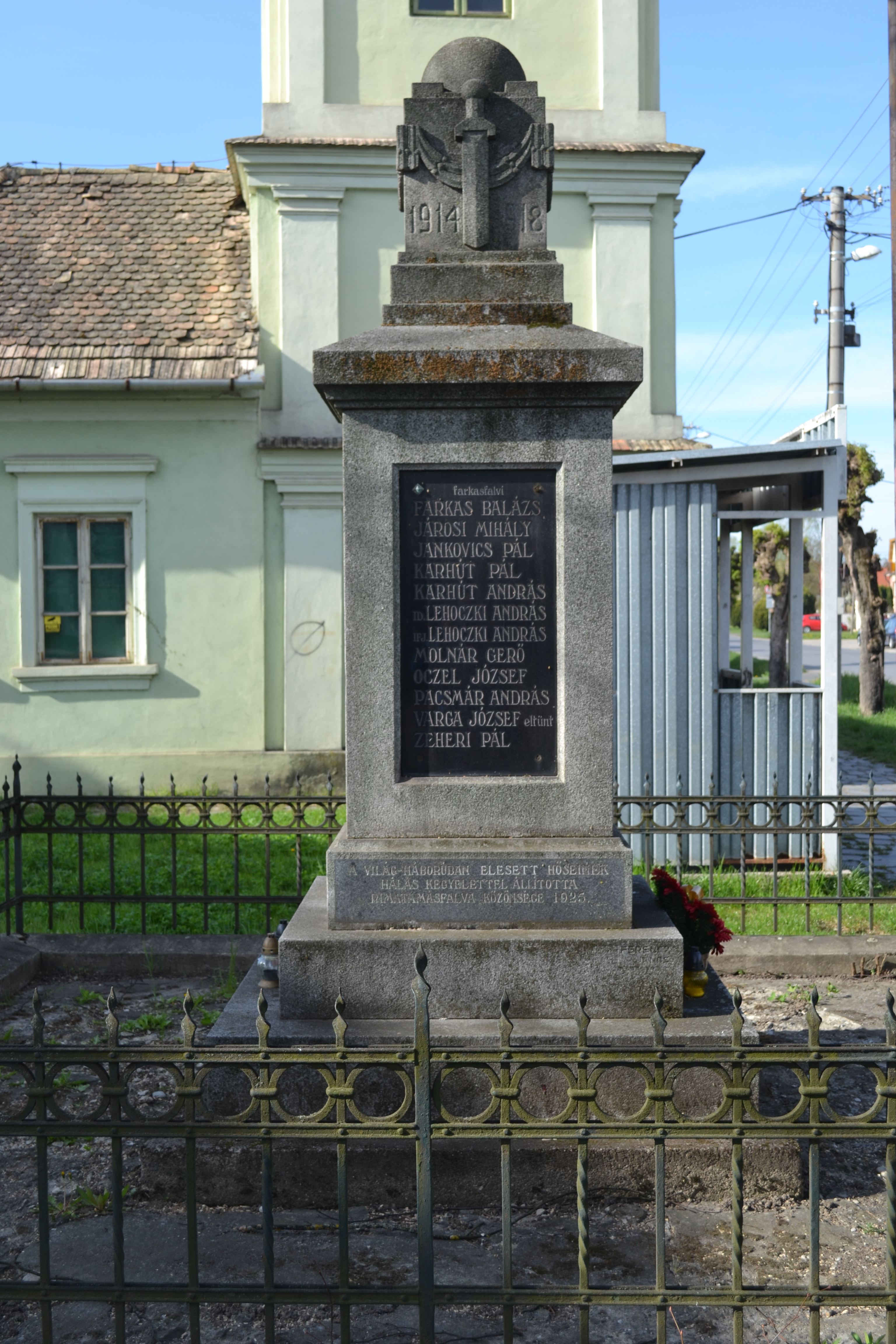 Monument to the fallen in World War I. in Rimavská Sobota